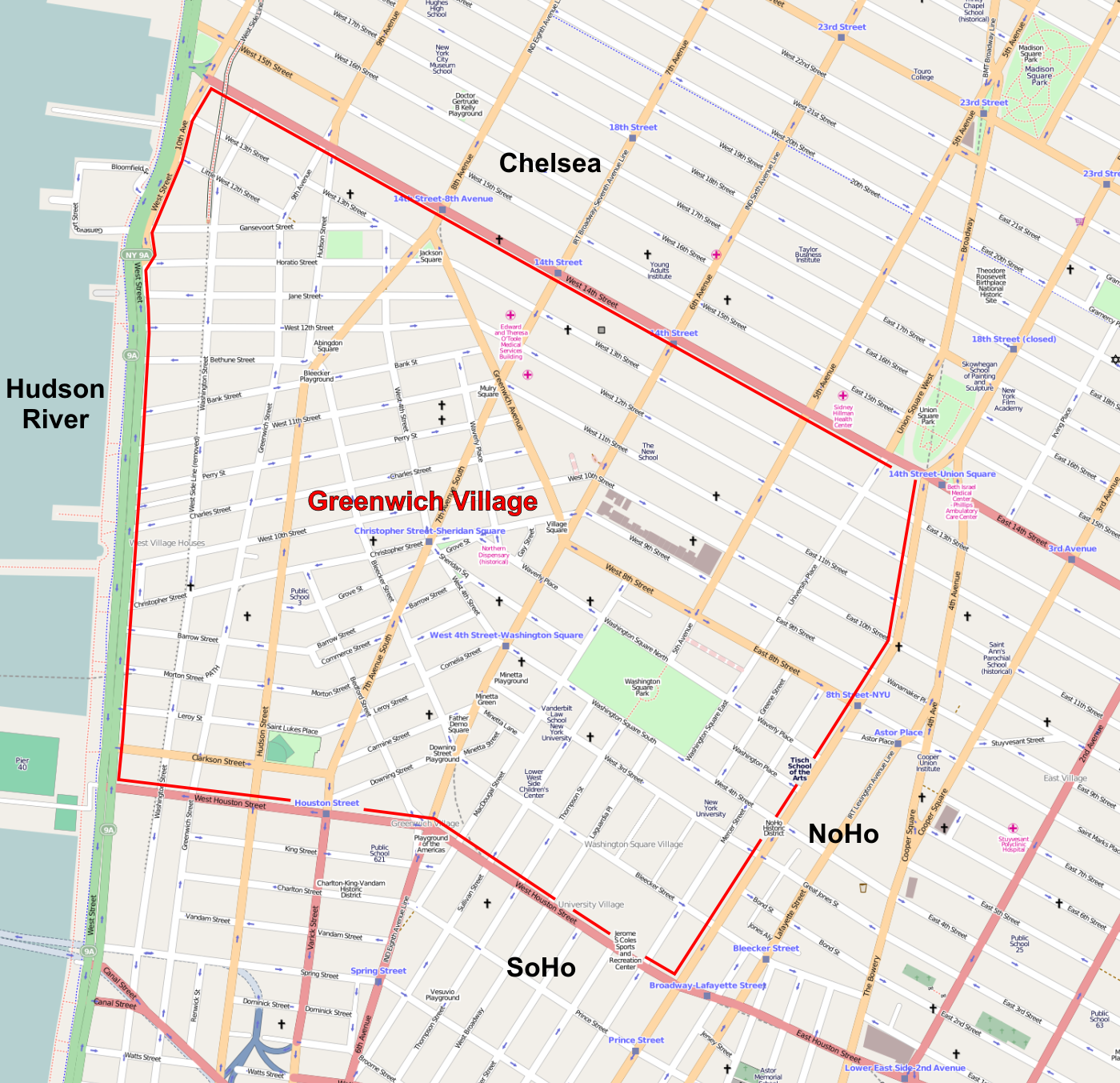 Map of Greenwich Village - Manhattan